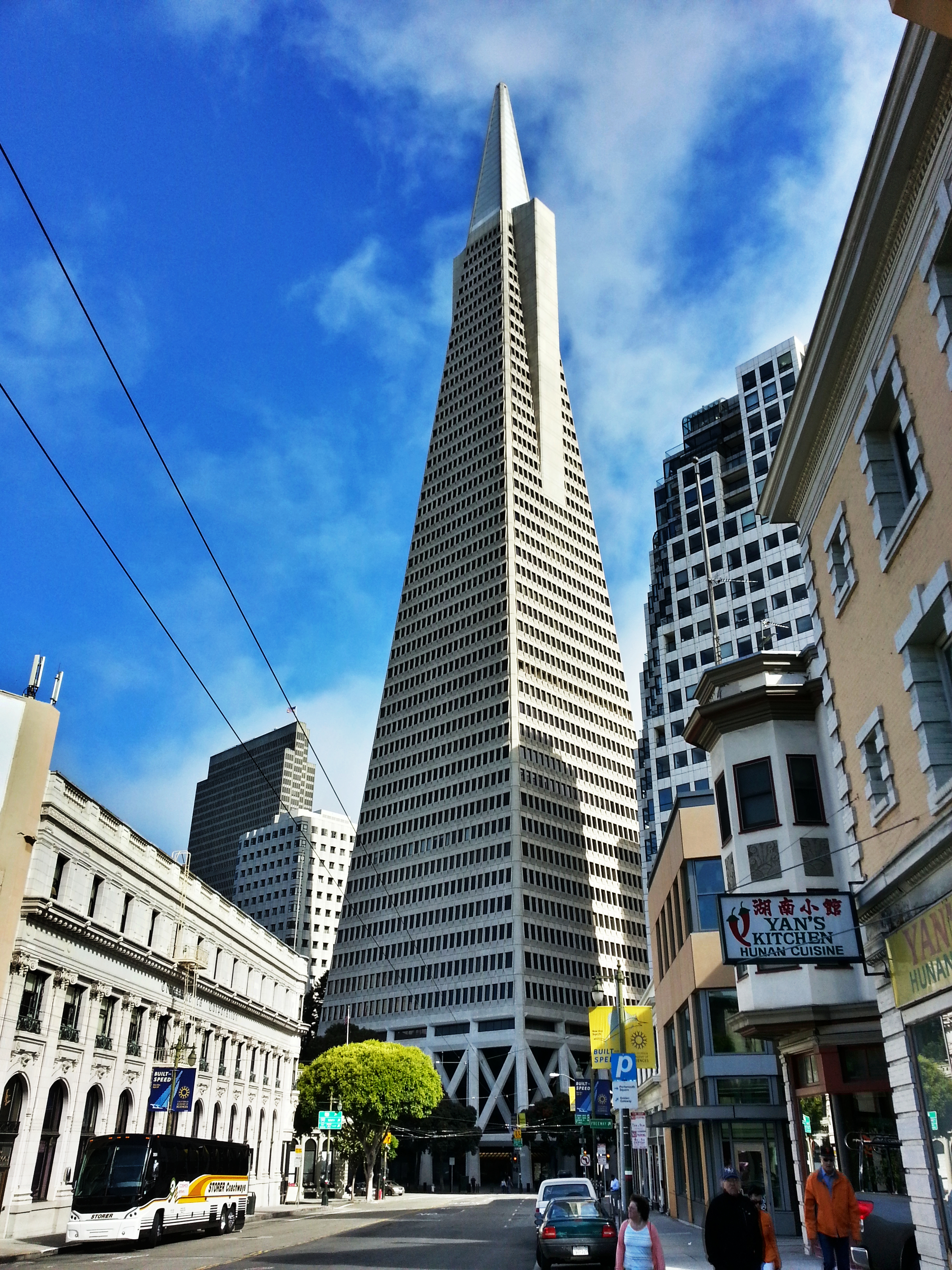 View of the Transamerica Pyramid tower southwest from Columbus Ave.